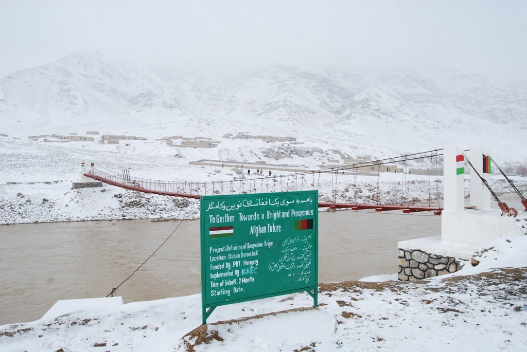 The following is the author's description of the photograph quoted directly from the photograph's Flickr page."A new pedestrian bridge in Dushi District of Baghlan province after it was replaced by an Afghan contractor working for the Hungarian Provincial Reconstruction Team. The bridge brings together the inhabitants of four Afghan villages. "